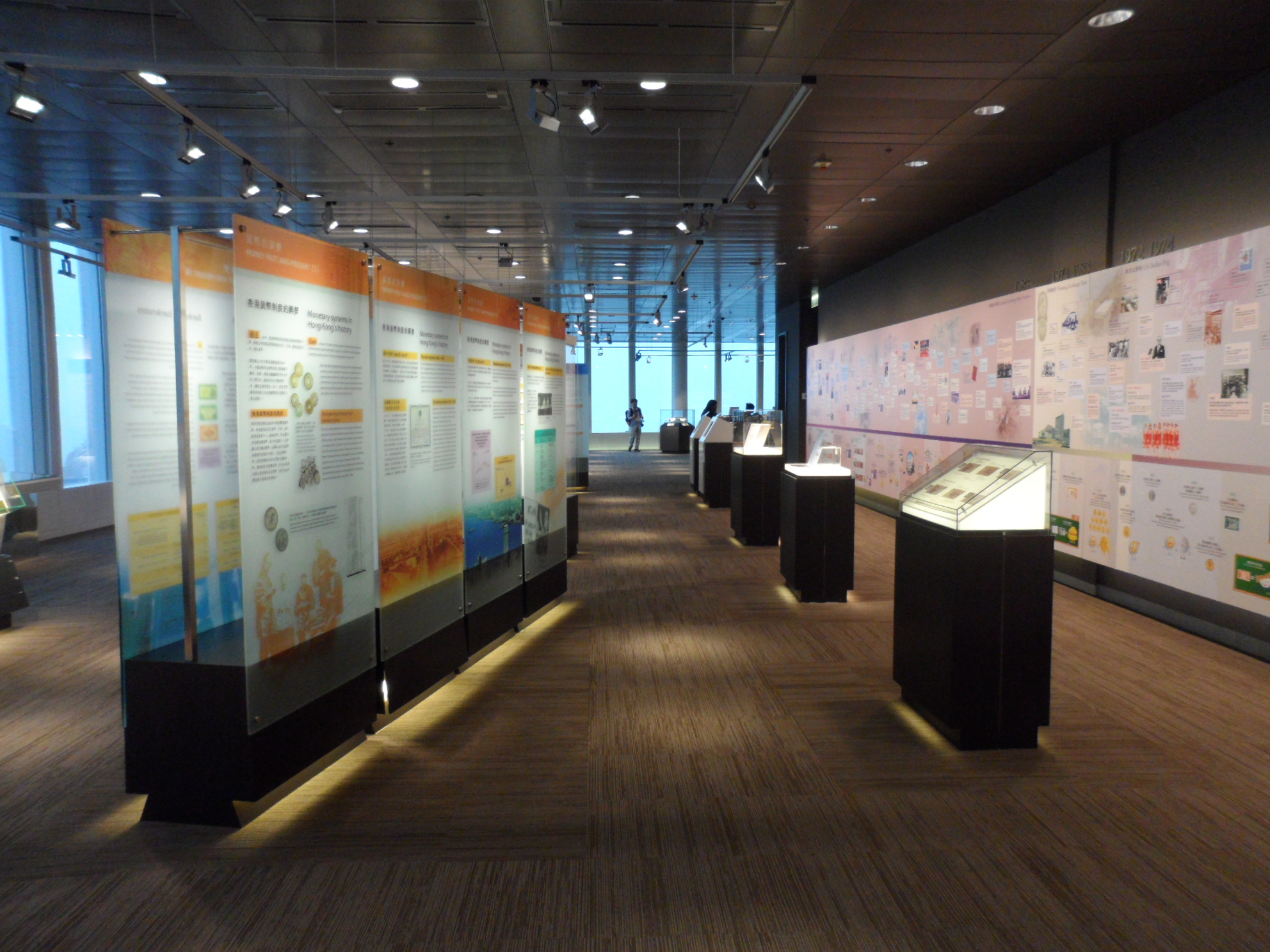 HKMA Exhibition Area, International Financial Center, Hong Kong, China